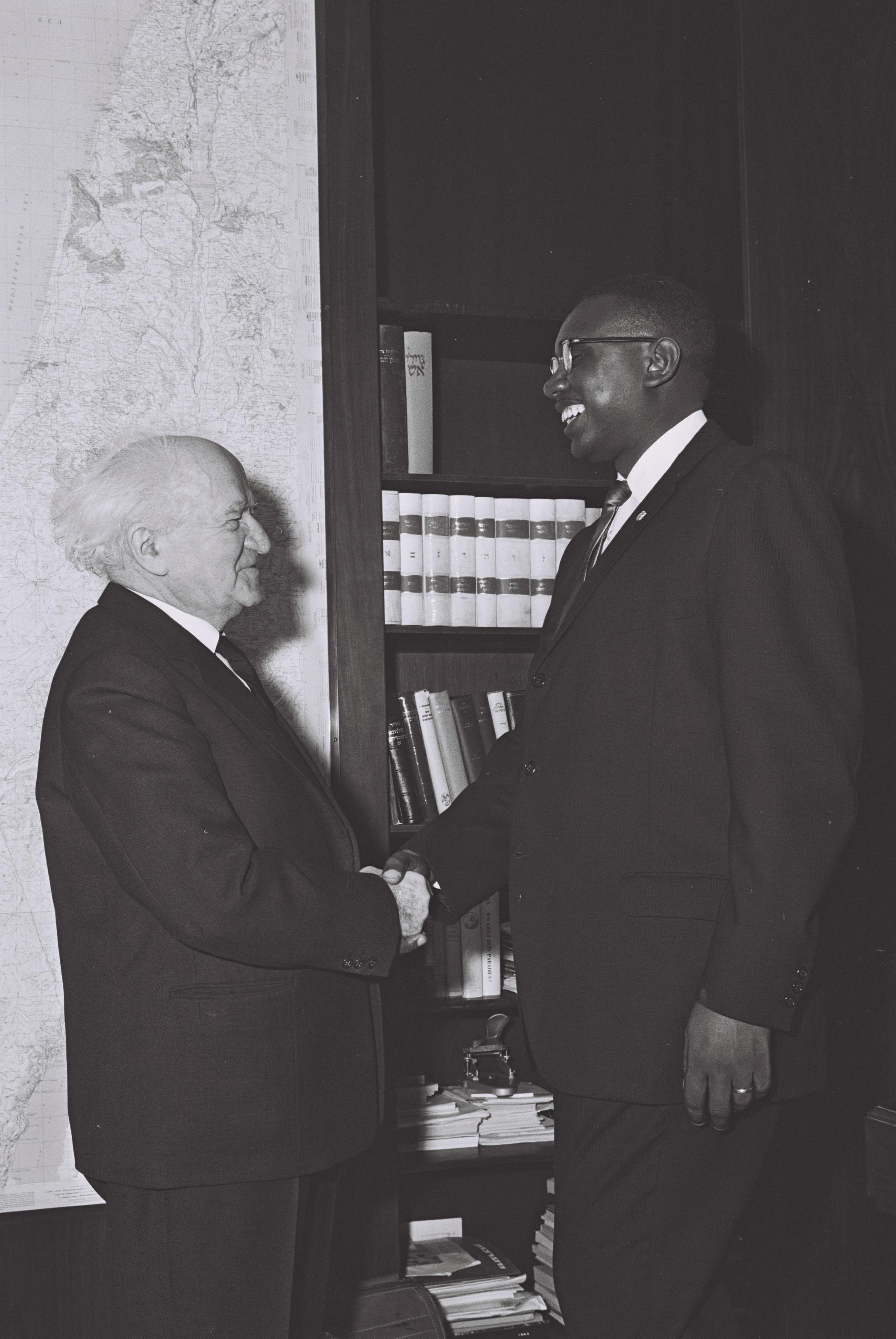 P.M. DAVID BEN GURION (L) RECEIVING LIBERIAN SECRETARY OF STATE RUDOLPH GRIMES AT HIS OFFICE IN JERUSALEM.